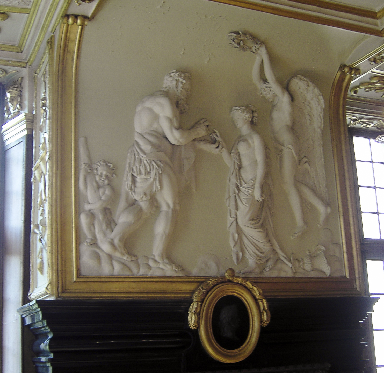 Jan-Christian Hansche, Marriage of Hercules, relief in stucco on the chimney of the Salon d'Hercule of the Castle of Modave.